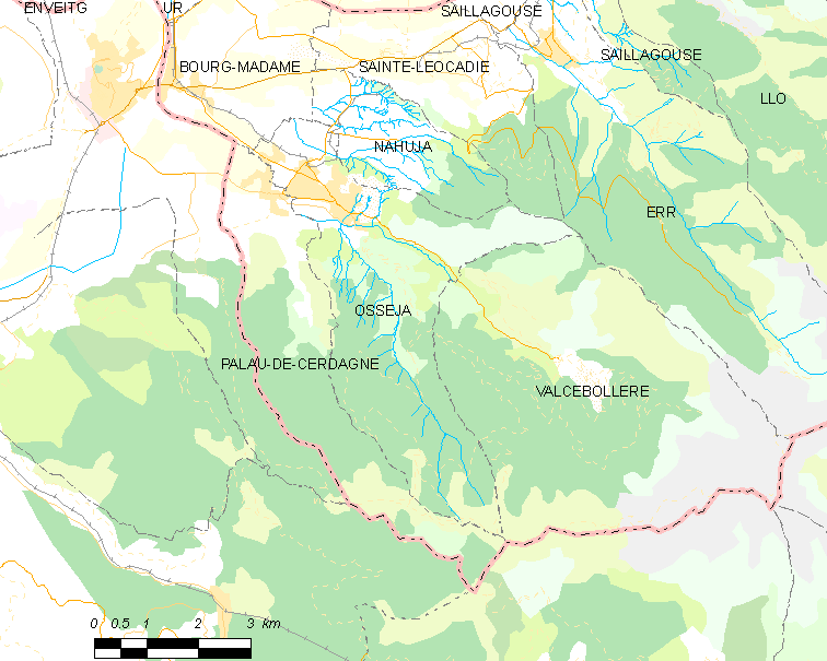 Map of French municipality